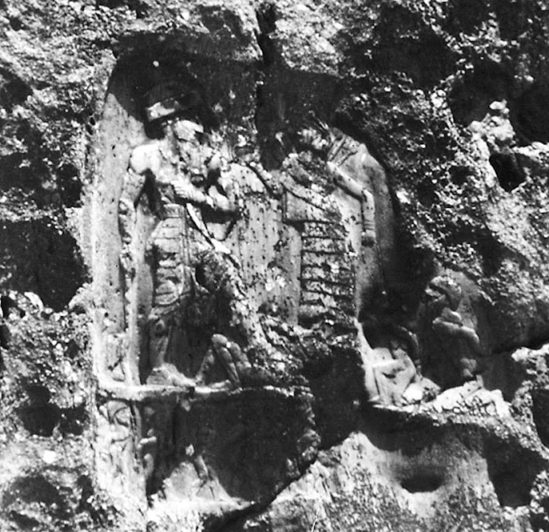 Annubani rock relief Ernst Herzfeld 1913